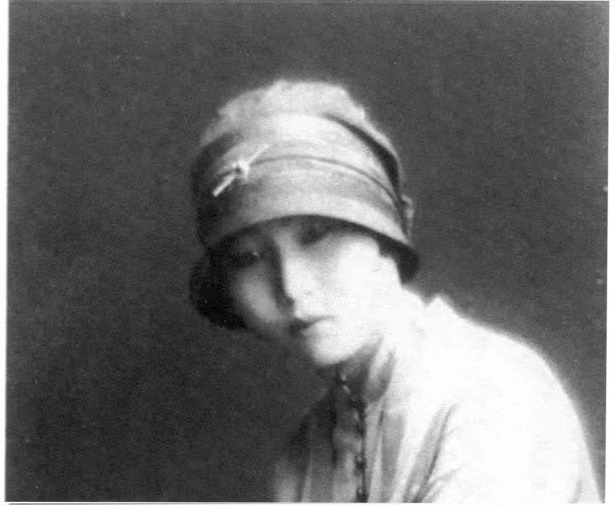 Park Kyung-won, one of Korea's first female aviators